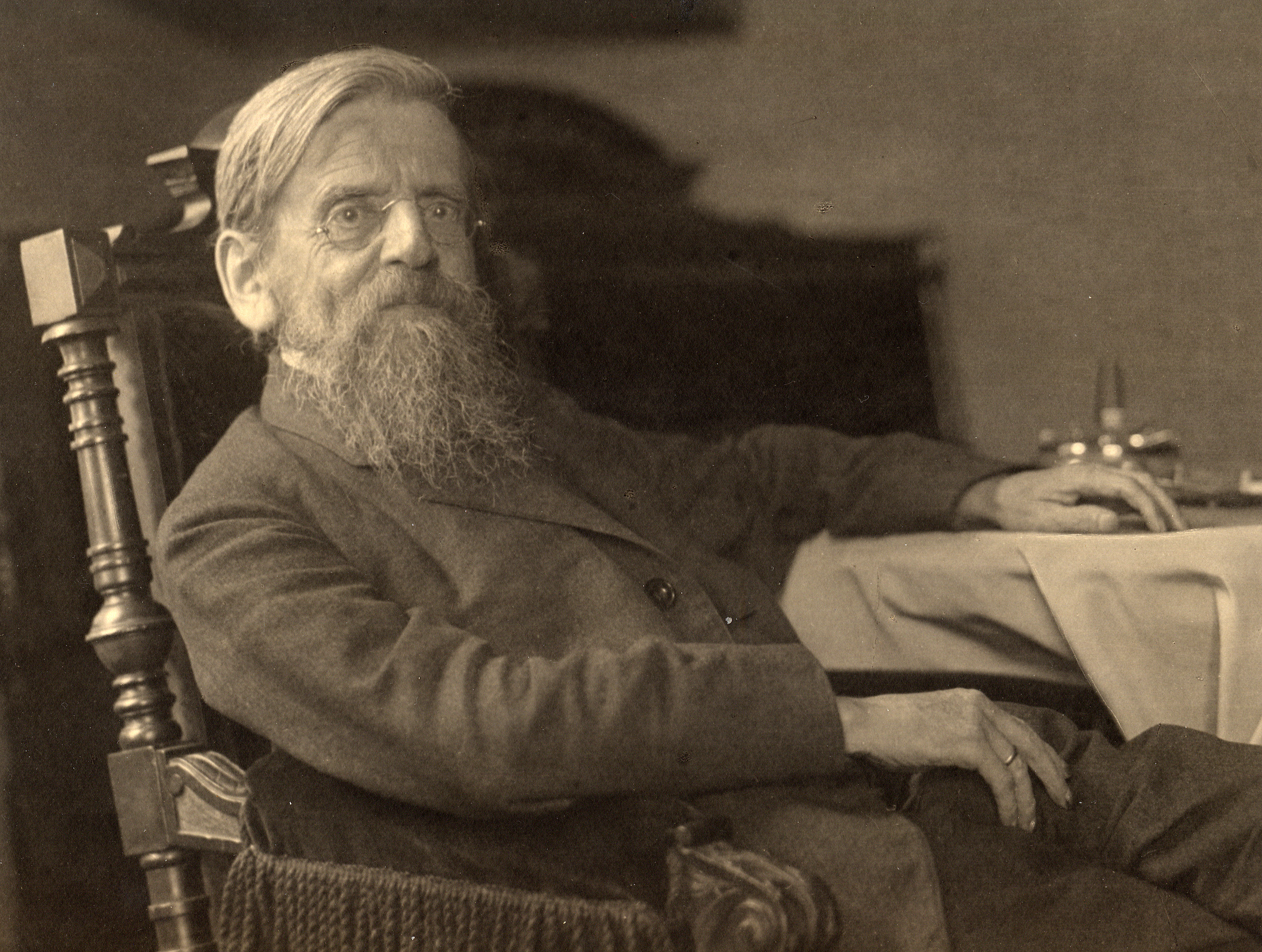 German Professor Dr. Adolf Schlatter sitting in an easy-chair, 1925